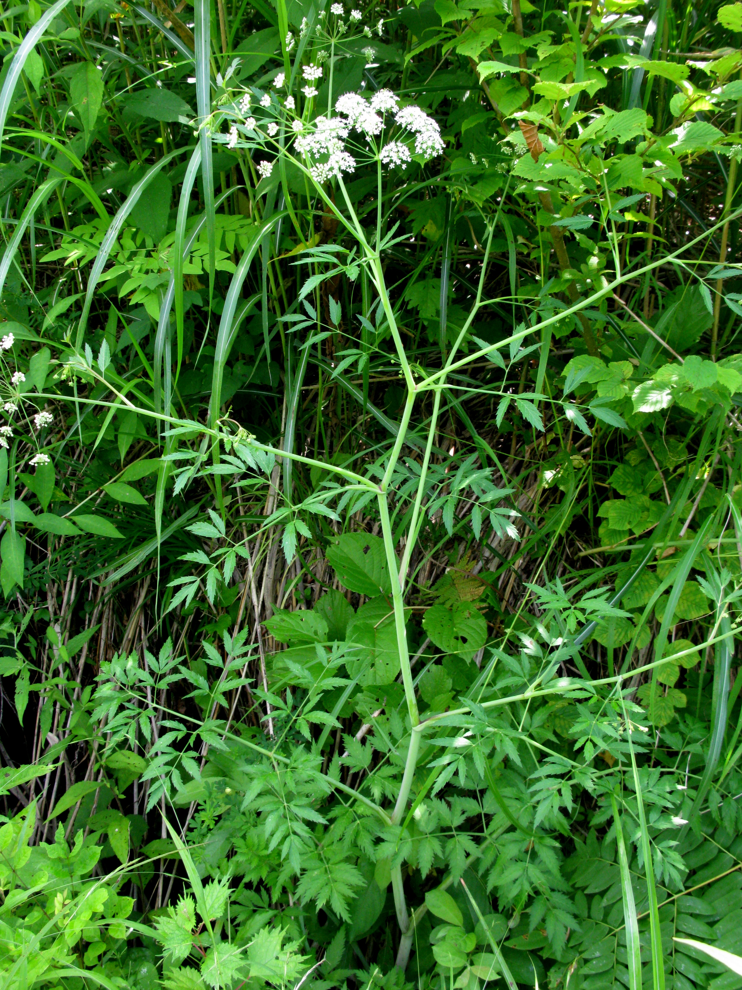 Cicuta virosa, Aizu area, Fukushima pref., Japan